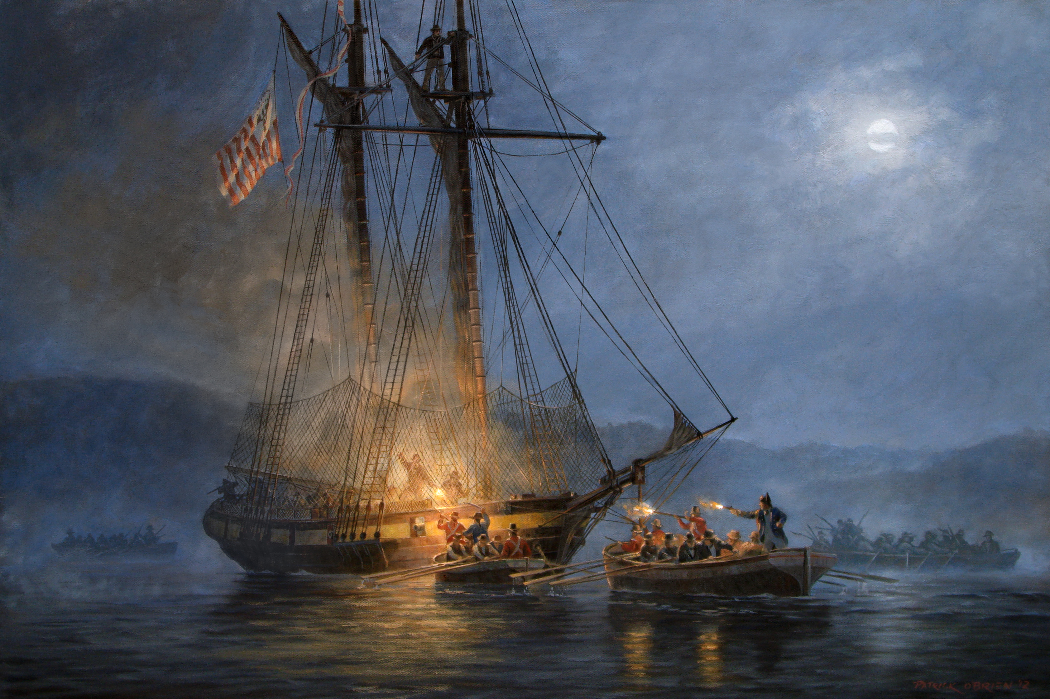 "The Gallant Defense of Cutter Surveyor" against barges and Royal Navy personnel from HMS Narcissus, Gloucester Point, VA, 12 June 1813.